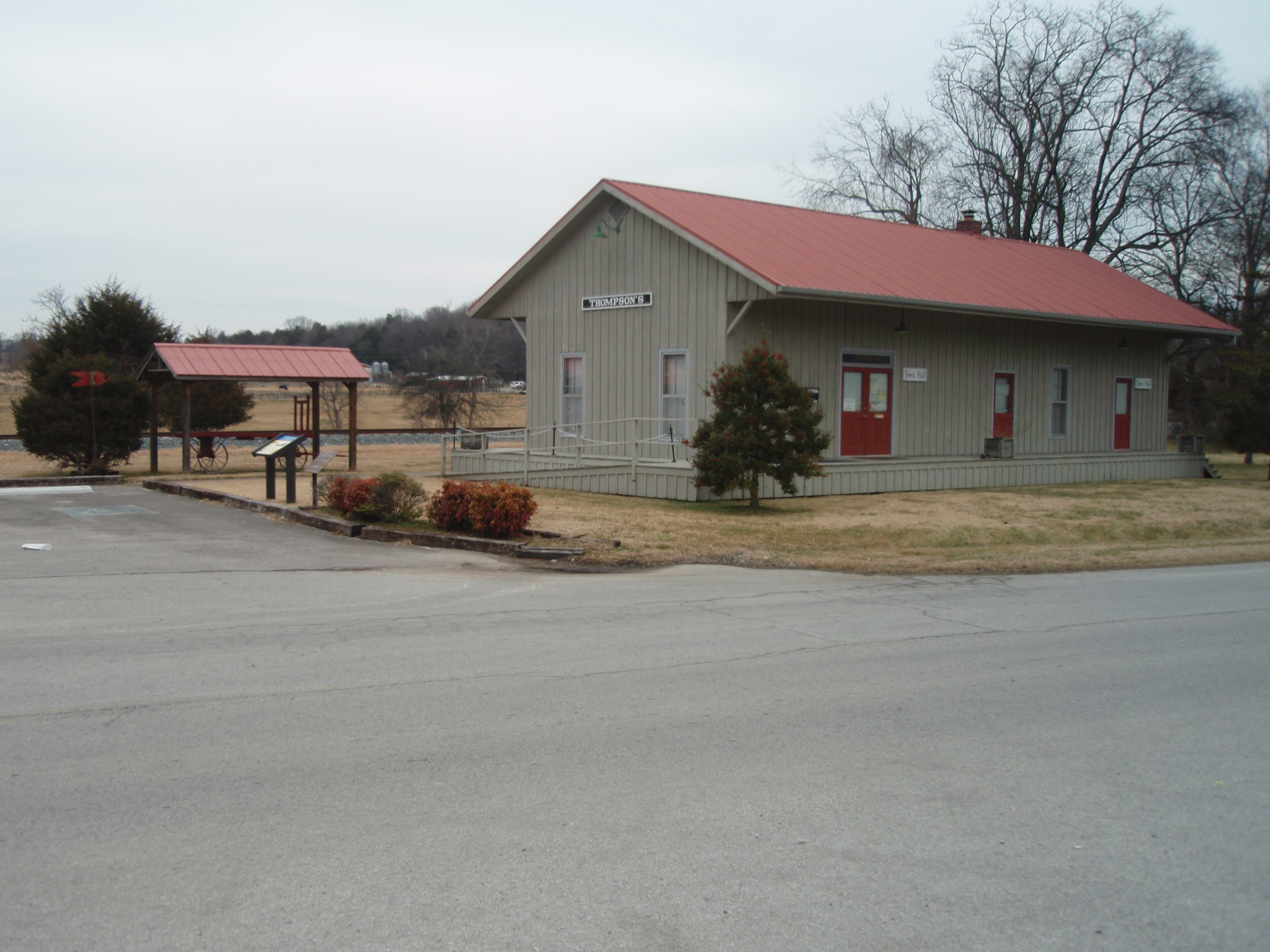 Thompson's Station Town Hall in Tennessee.